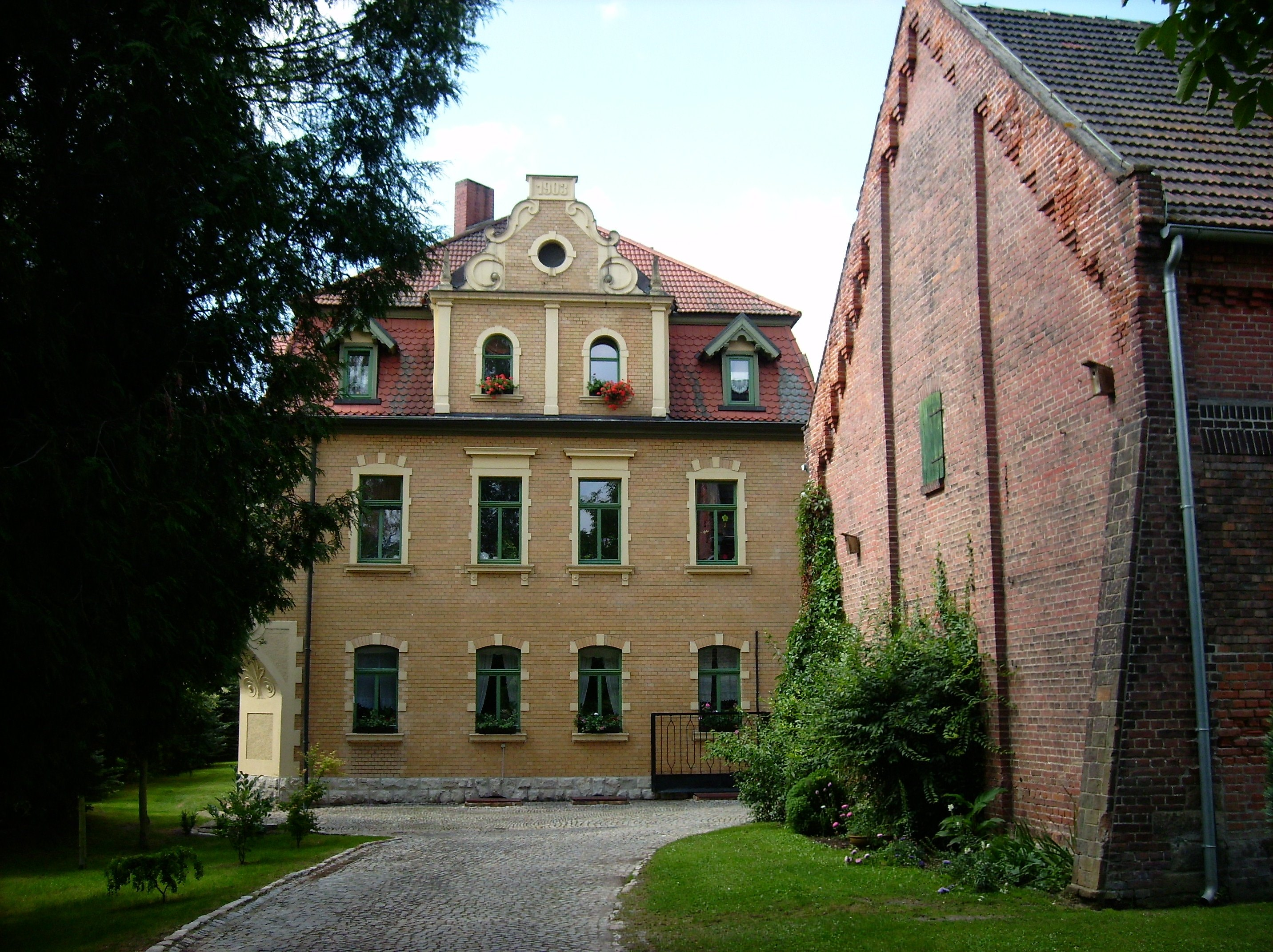 House from 1903 at the Untermühle ("Lower mill") in Wetterscheidt (Mertendorf, district of Burgenlandkreis, Saxony-Anhalt)